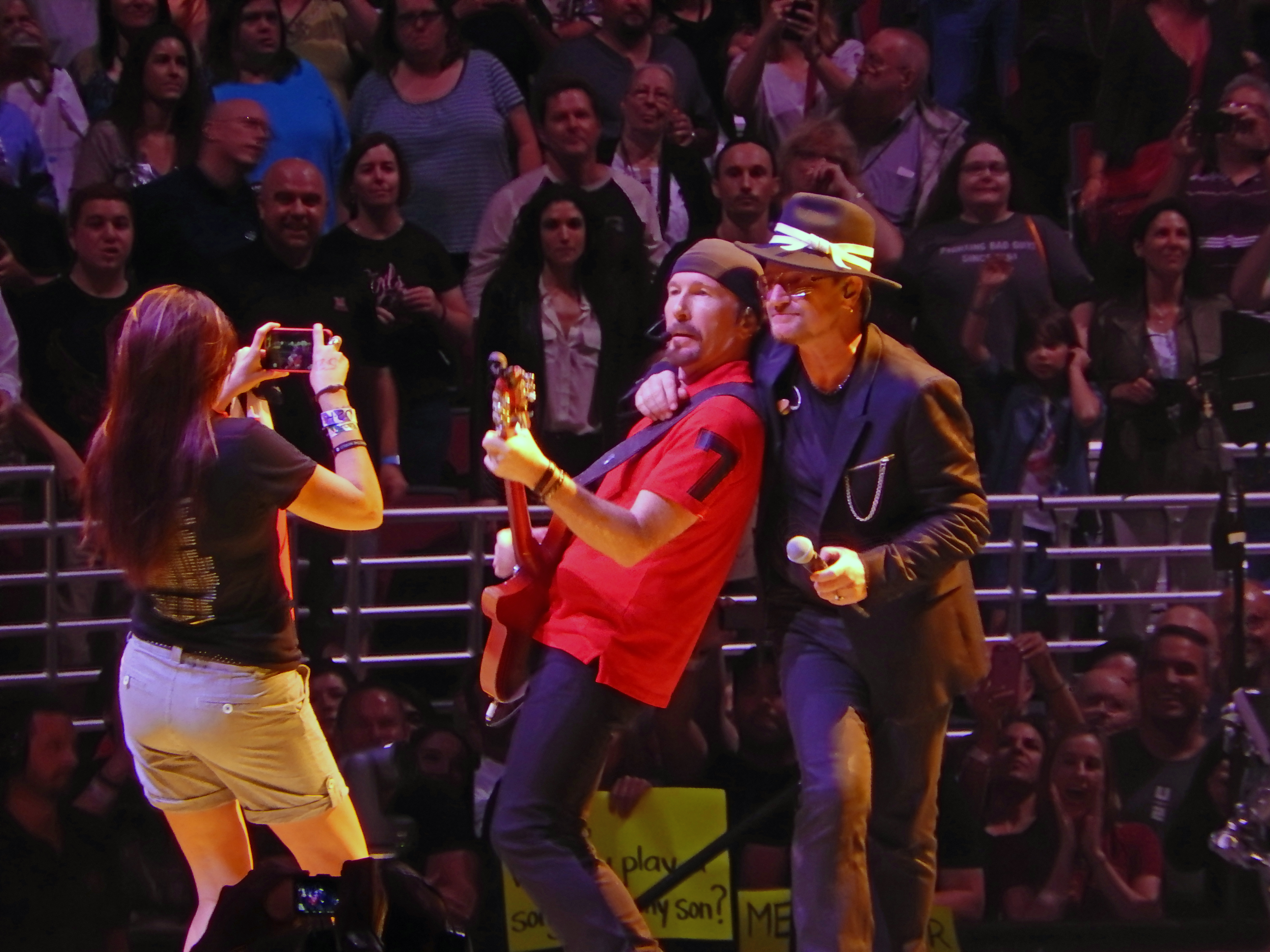 A fan films The Edge and Bono of U2 for a Meerkat stream during a performance at United Center in Chicago, IL on June 25, 2015